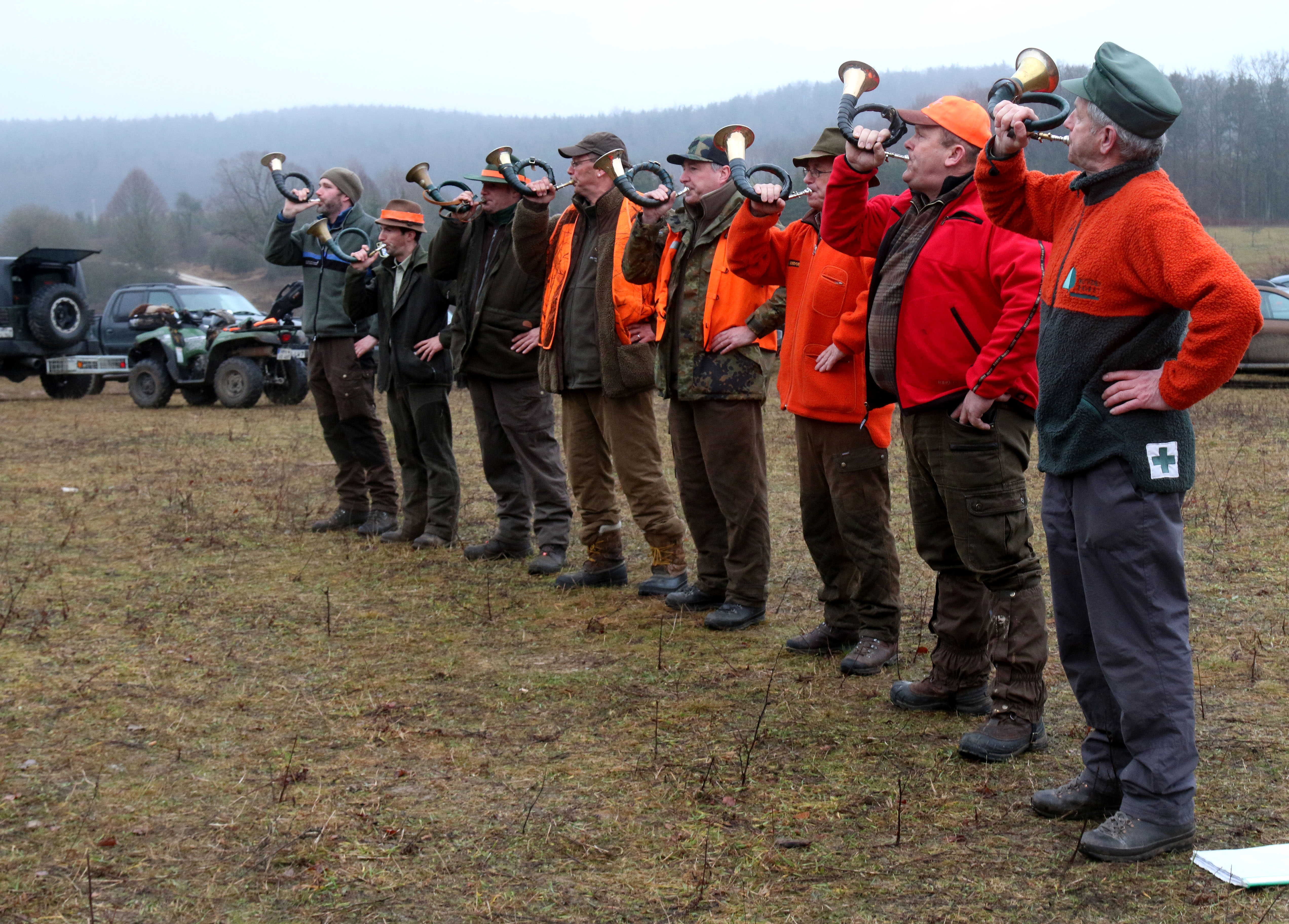 Buglers call the hunters to order to begin the 7th annual German-American Partnership hunt at Hohenfels Training Area, Dec 17, 2015. (Photo Credit: Sgt. Gemma Iglesias)